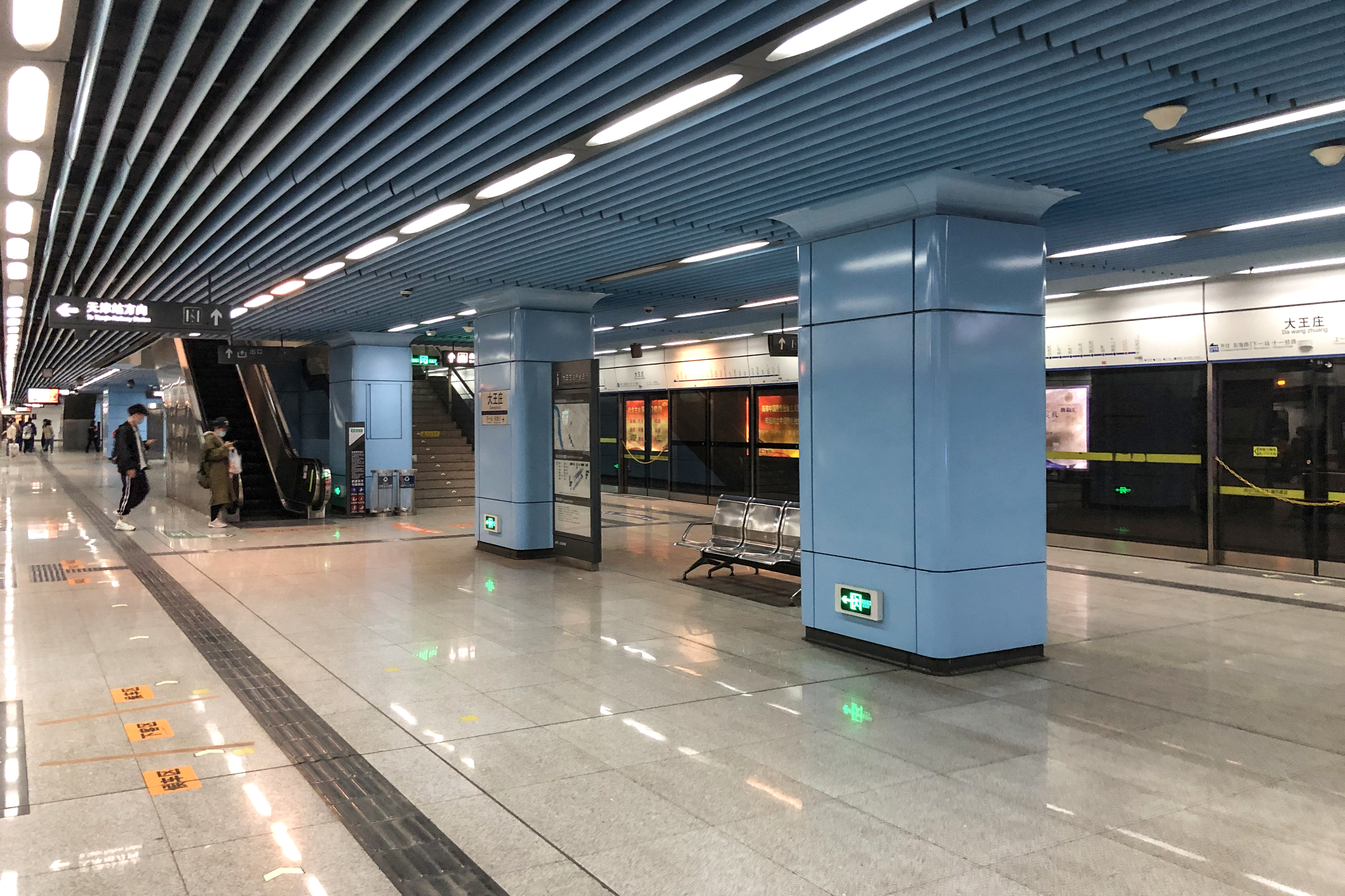 VYK (Victor Yankee Kilo) station?